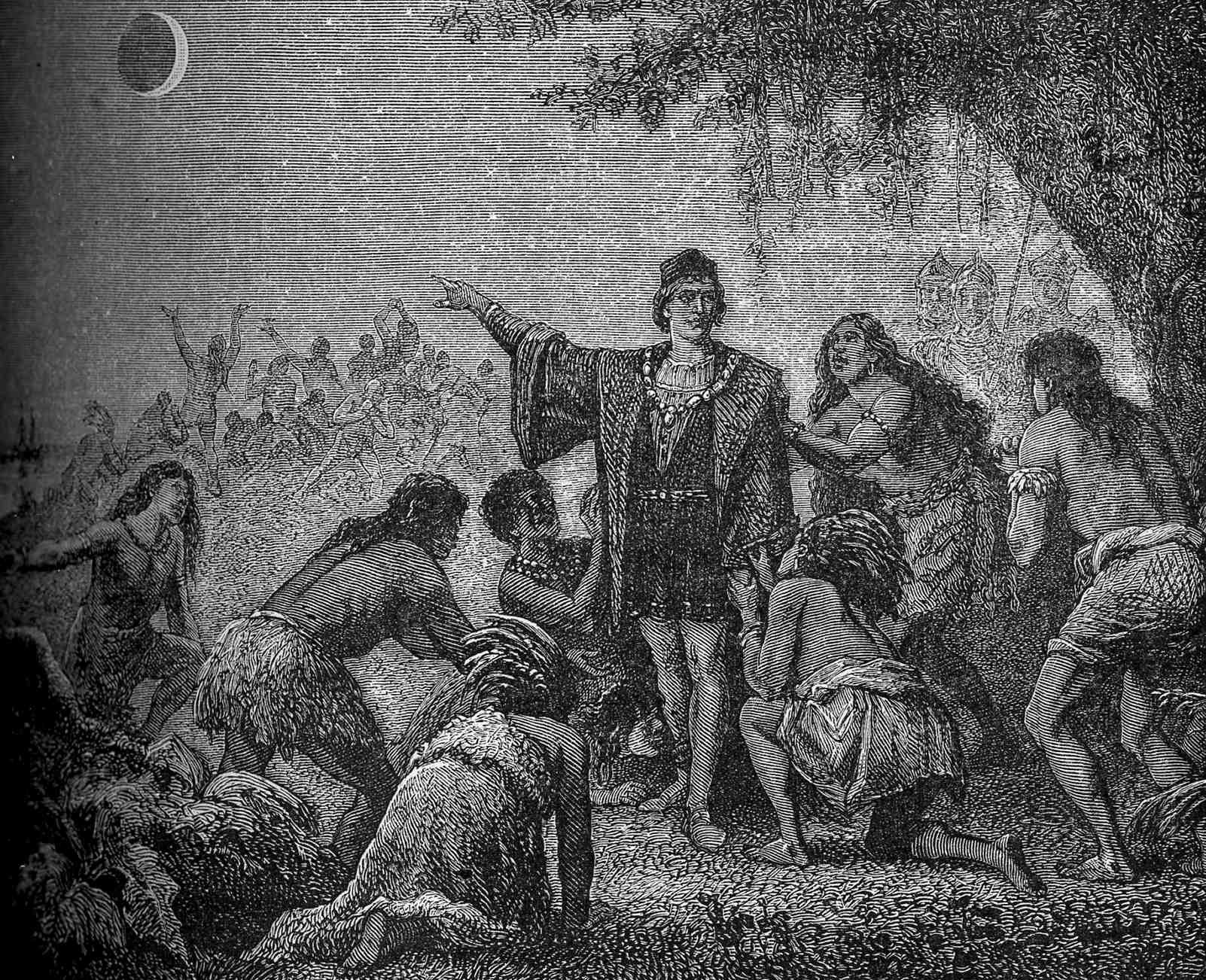 C. Colomb's Eclipse. Caption: "Fig. 86. — L'éclipse de lune de Christophe Colomb."